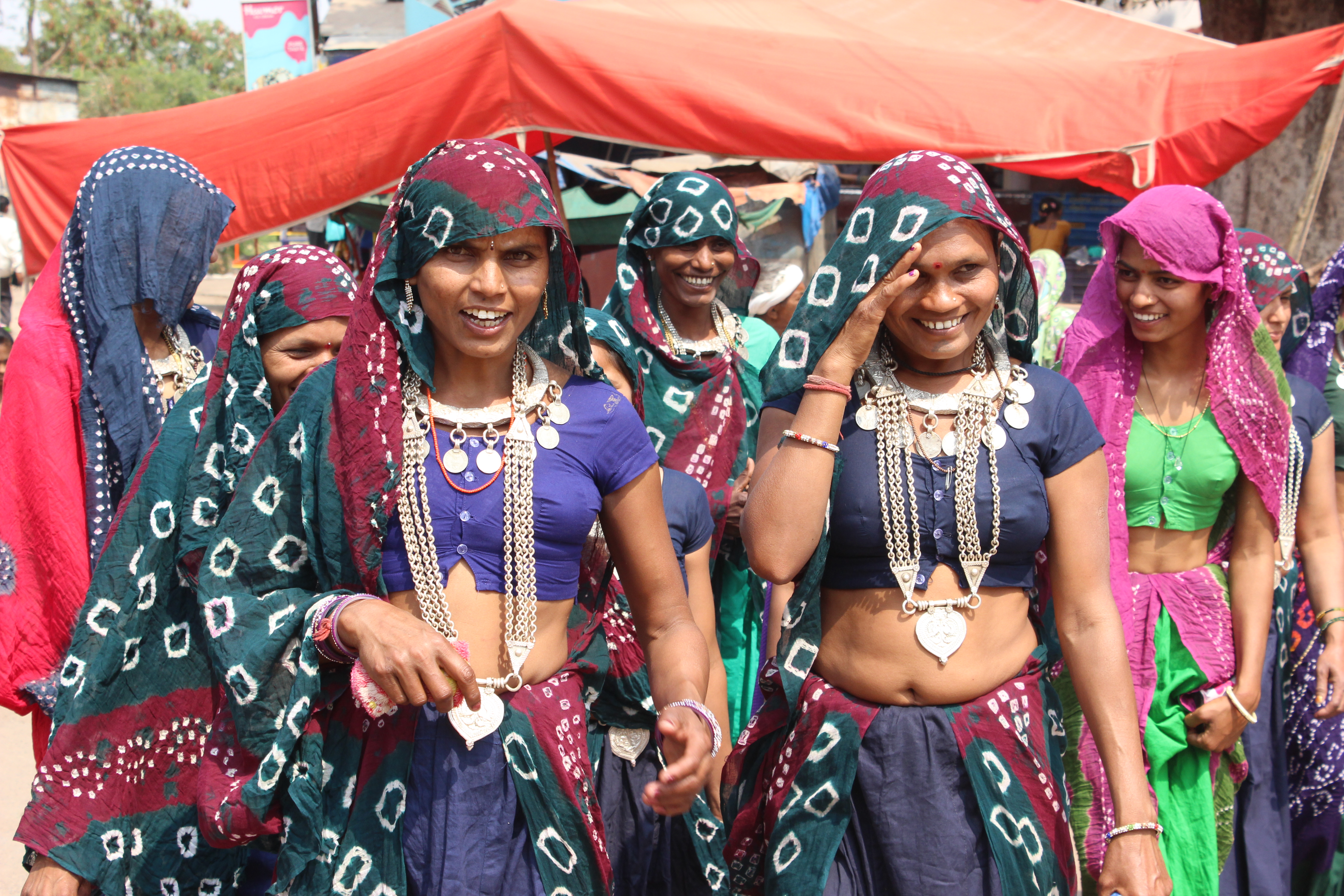 Rathwa women in Kavant fair, Gujarat, India ગુજરાતી: જૂના રાણી સિક્કા જડિત લાંબા રૂપેરી ગળાહાર અને કૅડે કંદોરો પહેરી તેમના સમૂહ-જૂથની આગવી ઓળખ પ્રમાણે એકસરખી બાંધણીમાં જોવા મળતી રાઠવા આદિવાસી સ્ત્રીઓ. This photo has been taken in the country: India